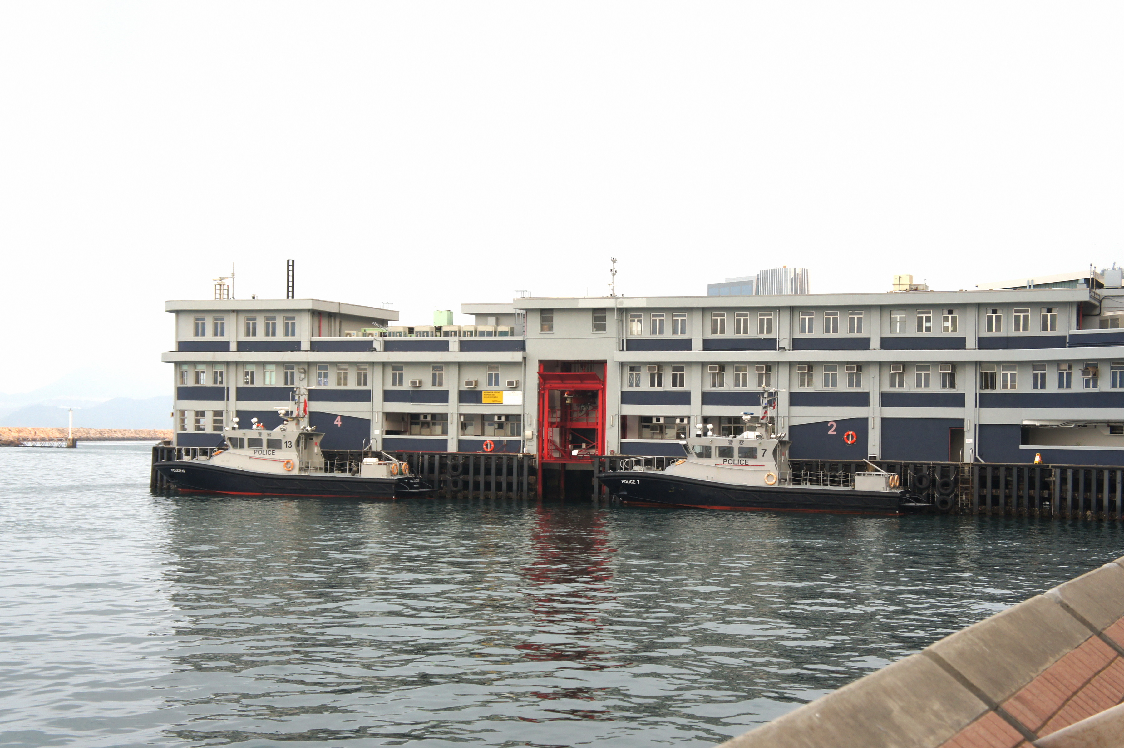 Marine Police Harbour Division, Sai Wan Ho, Hong Kong.